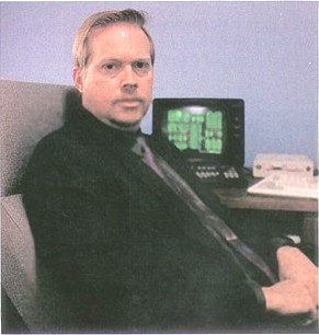 J. Orlin Grabbe, co-president of FX Systems Inc